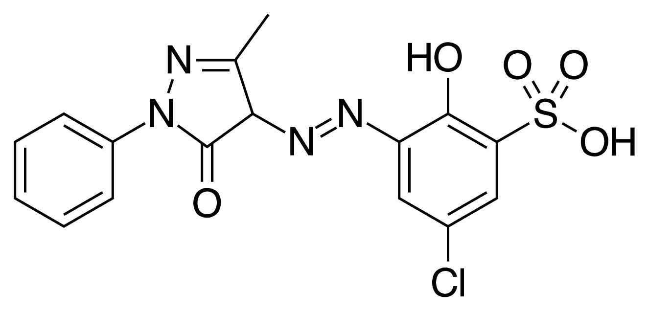 chemical structure of mordant red 19